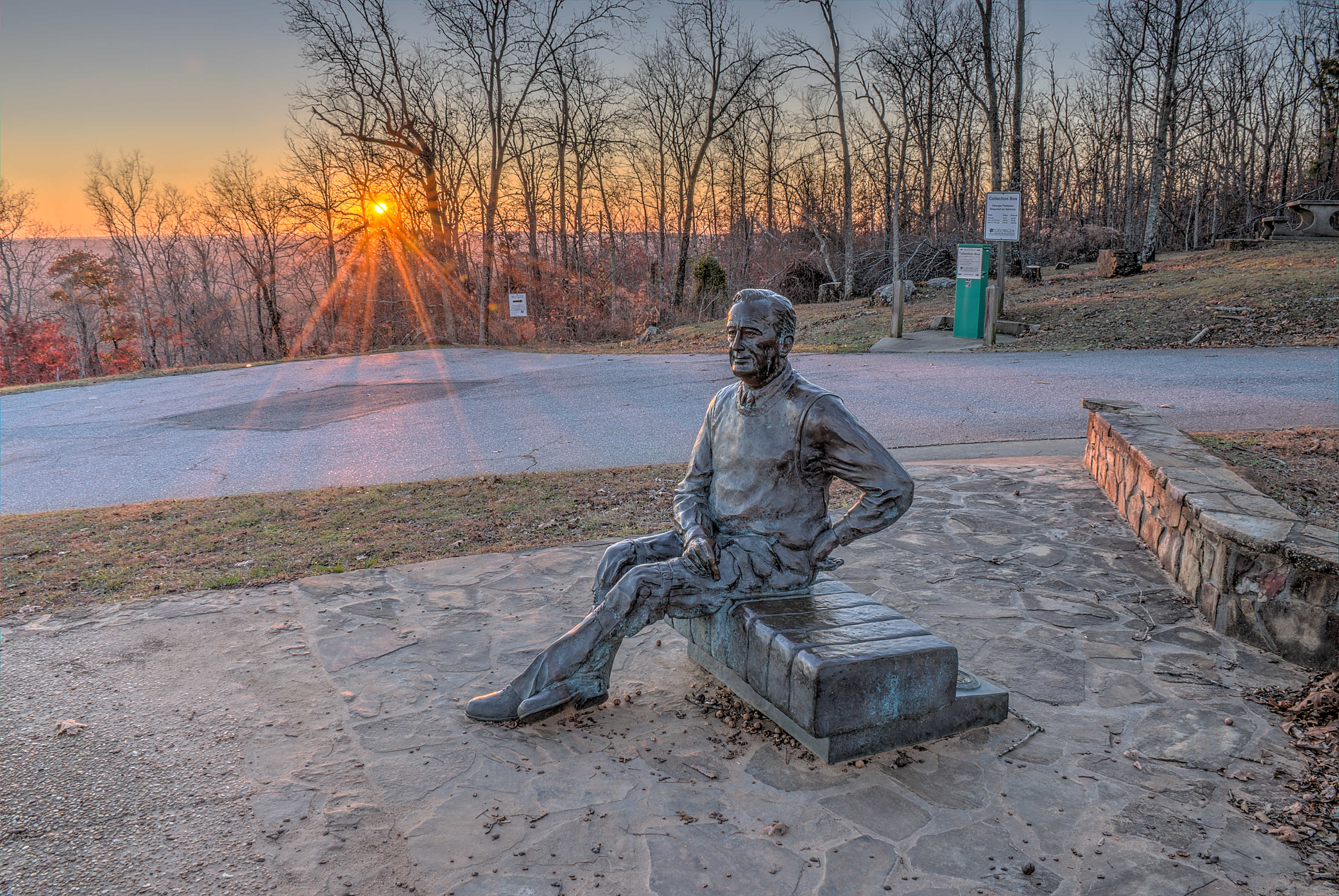 Sculpture at F. D. Roosevelt State Park, Georgia